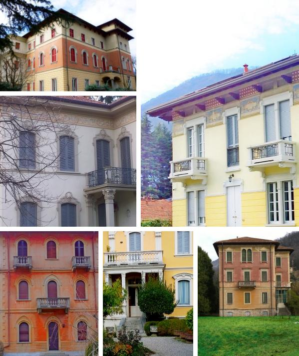 Collage of sample 19th and firts part of 20th century's villas in Canzo